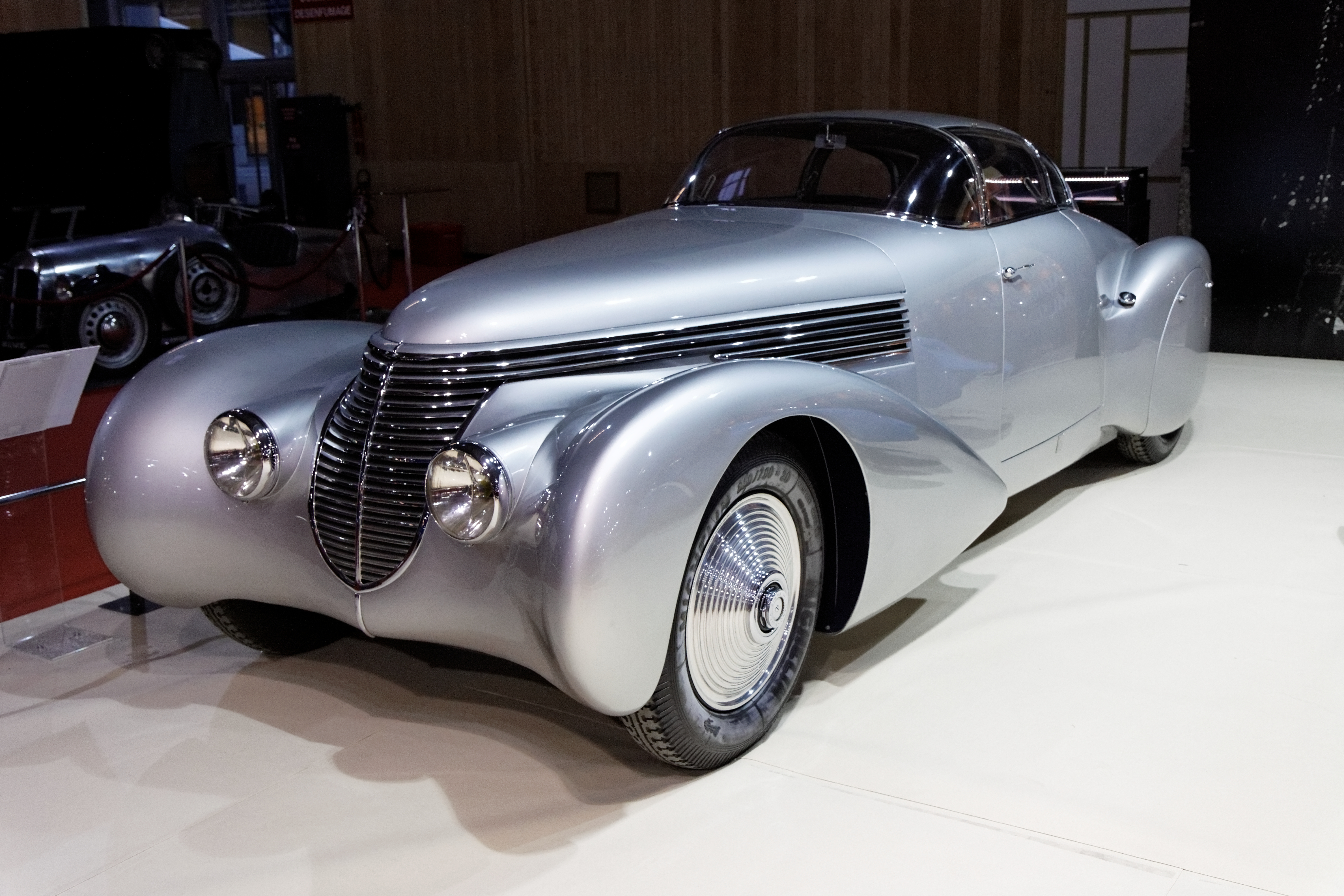 Hispano-Suiza type H6 C